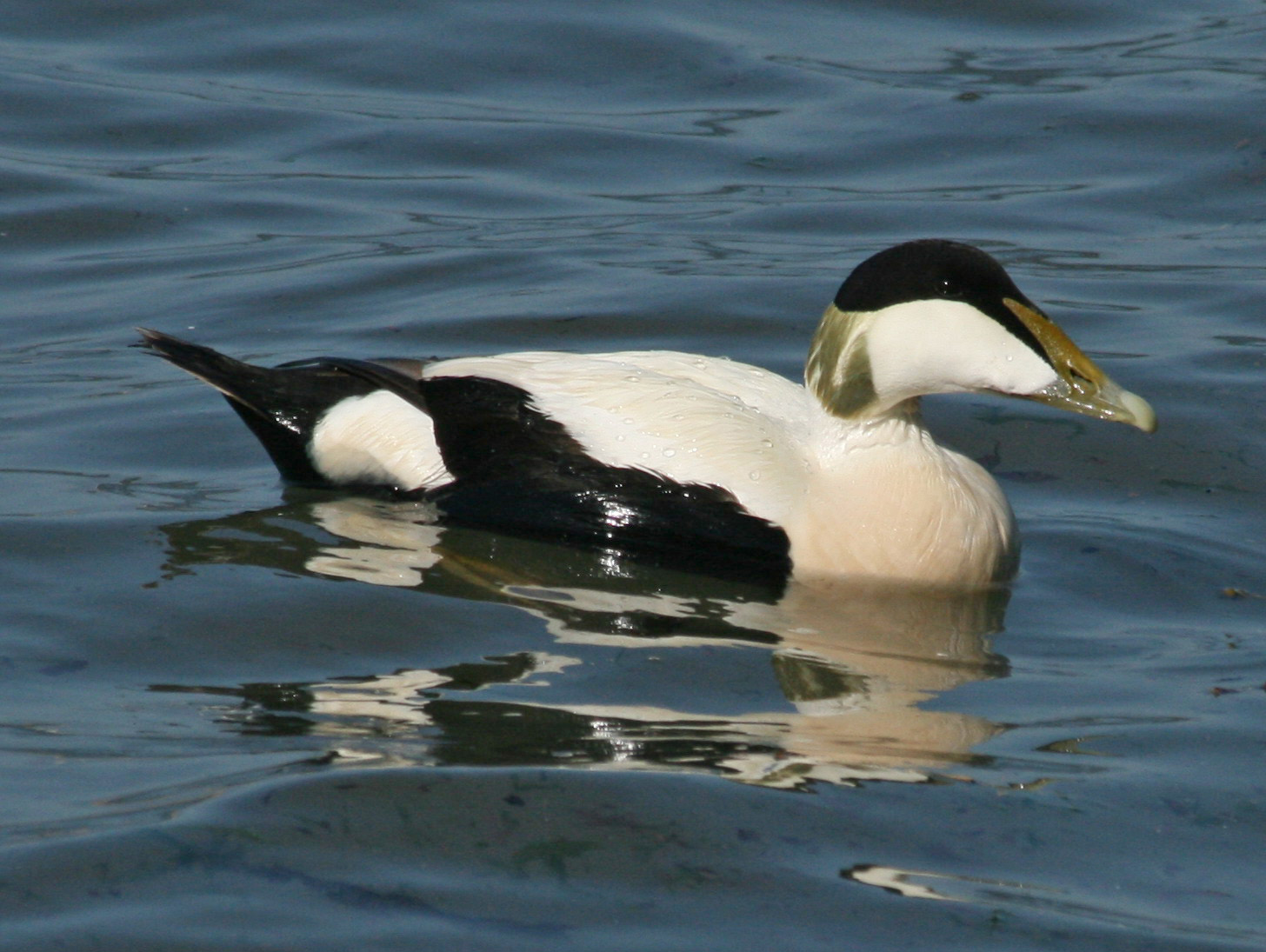 Common Eider (Somateria mollissima) - Scotland